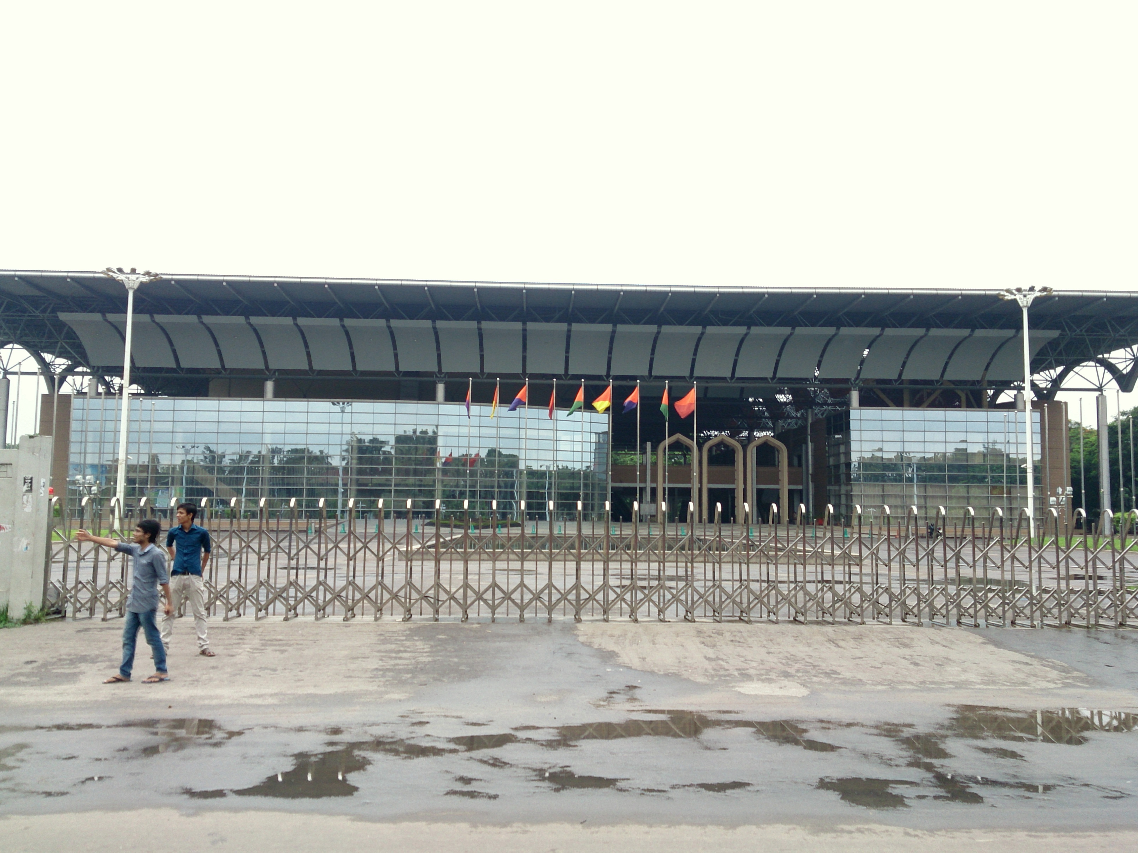 Bangabandhu International Conference Center, Dhaka.